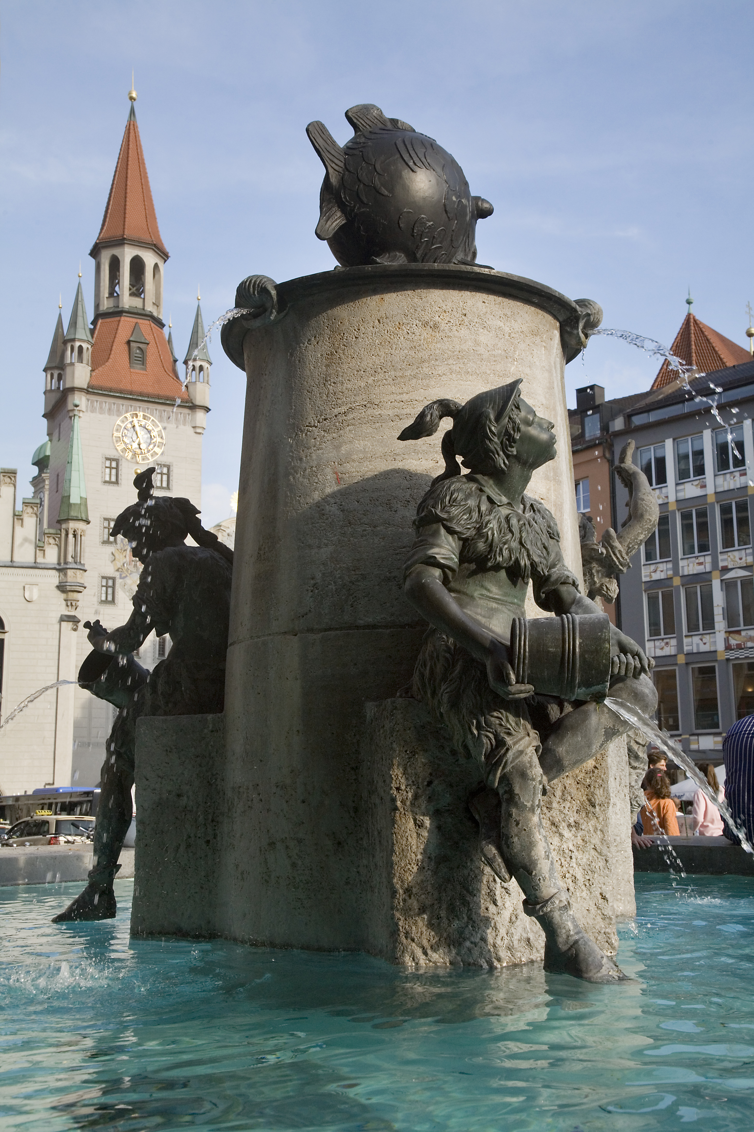 Fish Fountain (Fischbrunnen) at Marienplatz with the Altes Rathaus in the back. Munich, Germany